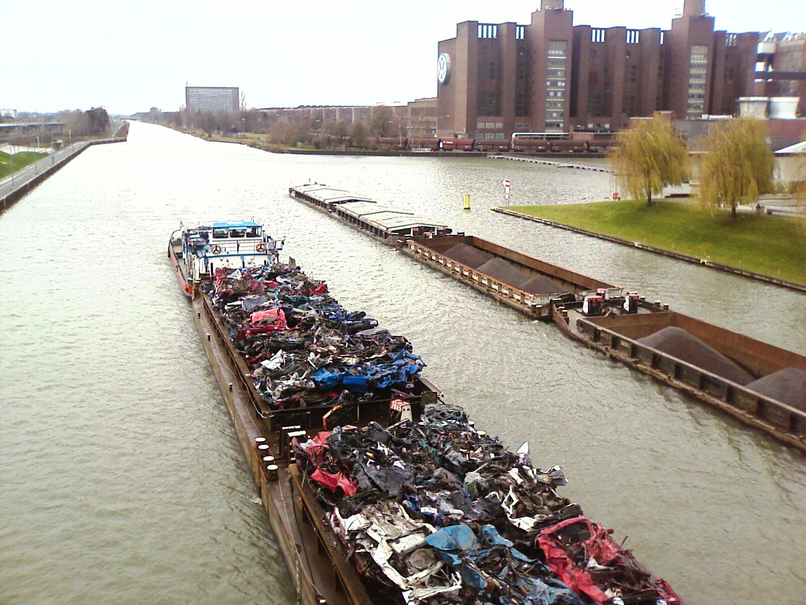 Scrap cars on a ship on the Mittellandkanal in Wolfsburg, in front of the Volkswagen factory